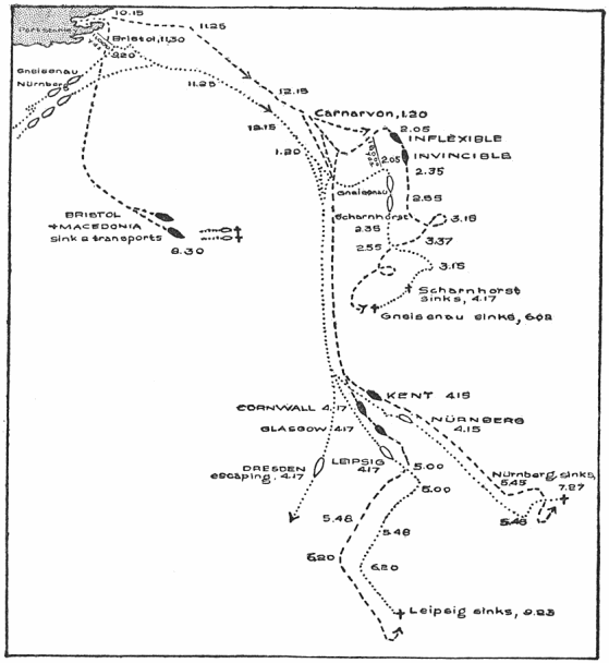 Map showing British and German ships and movements at the Battle of the Falkland Iskands, 8 December 1914.